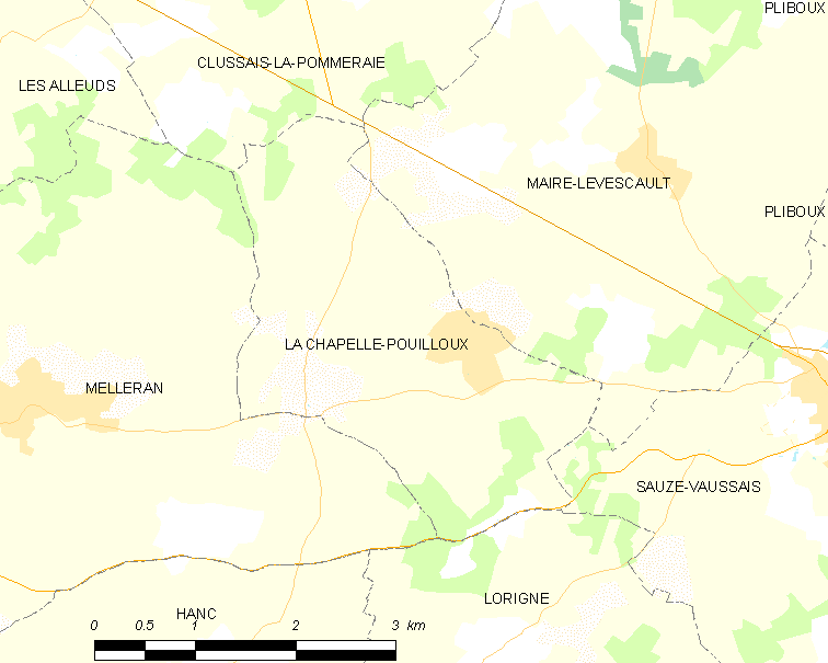 Map of French municipality La Chapelle-Pouilloux